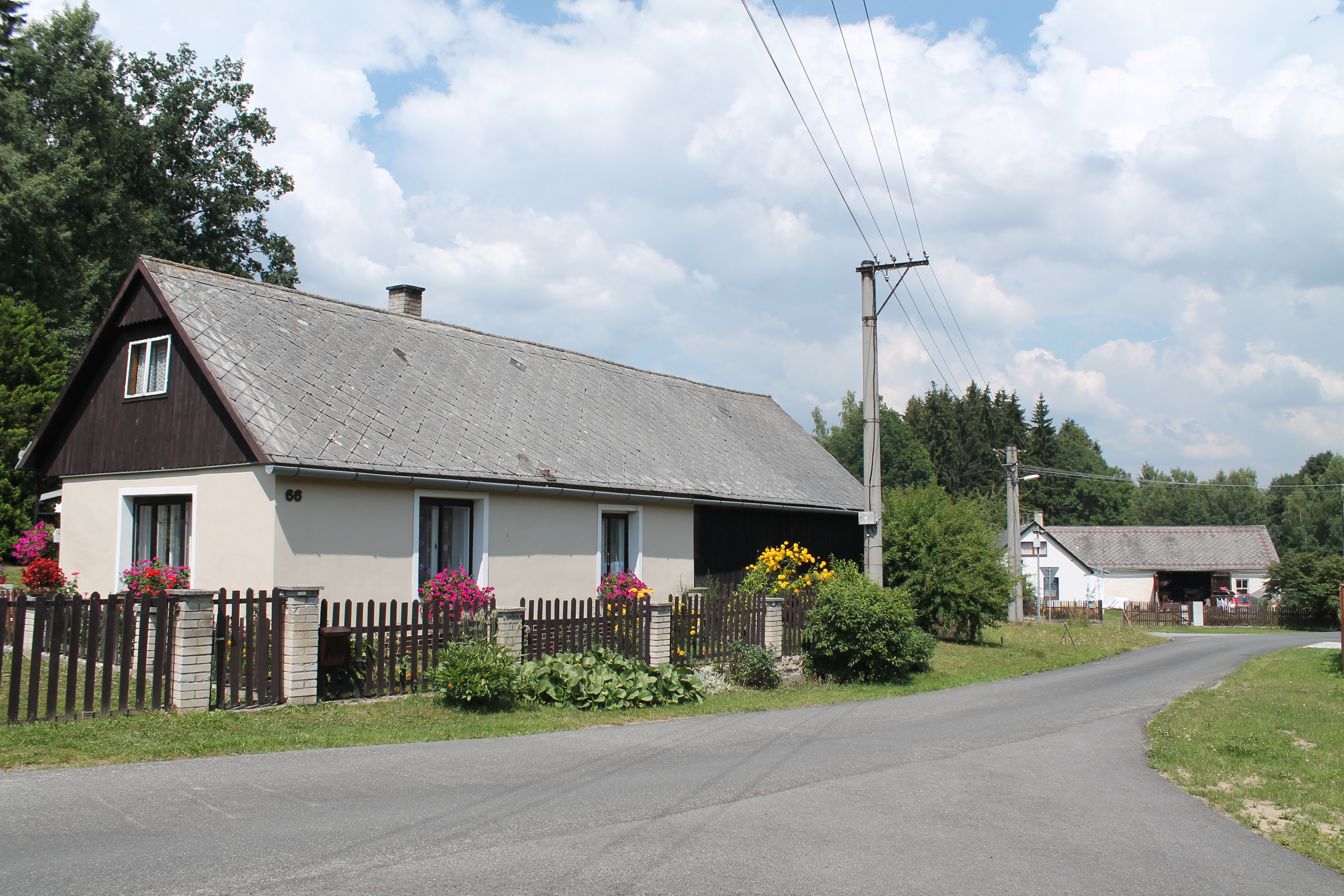 Hatlíkov, Hojkov, Jihlava District, Czech Republic